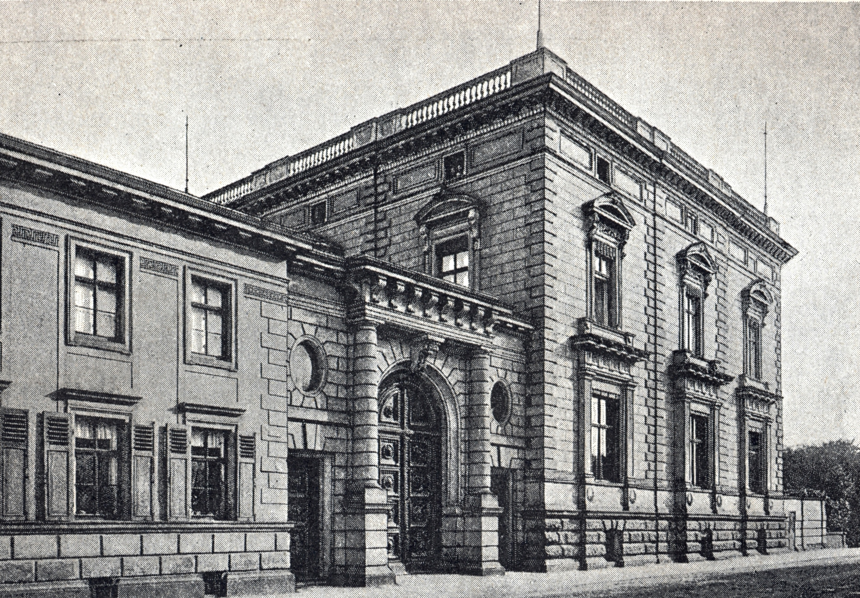 Villa Thieme, Leipzig, Germany